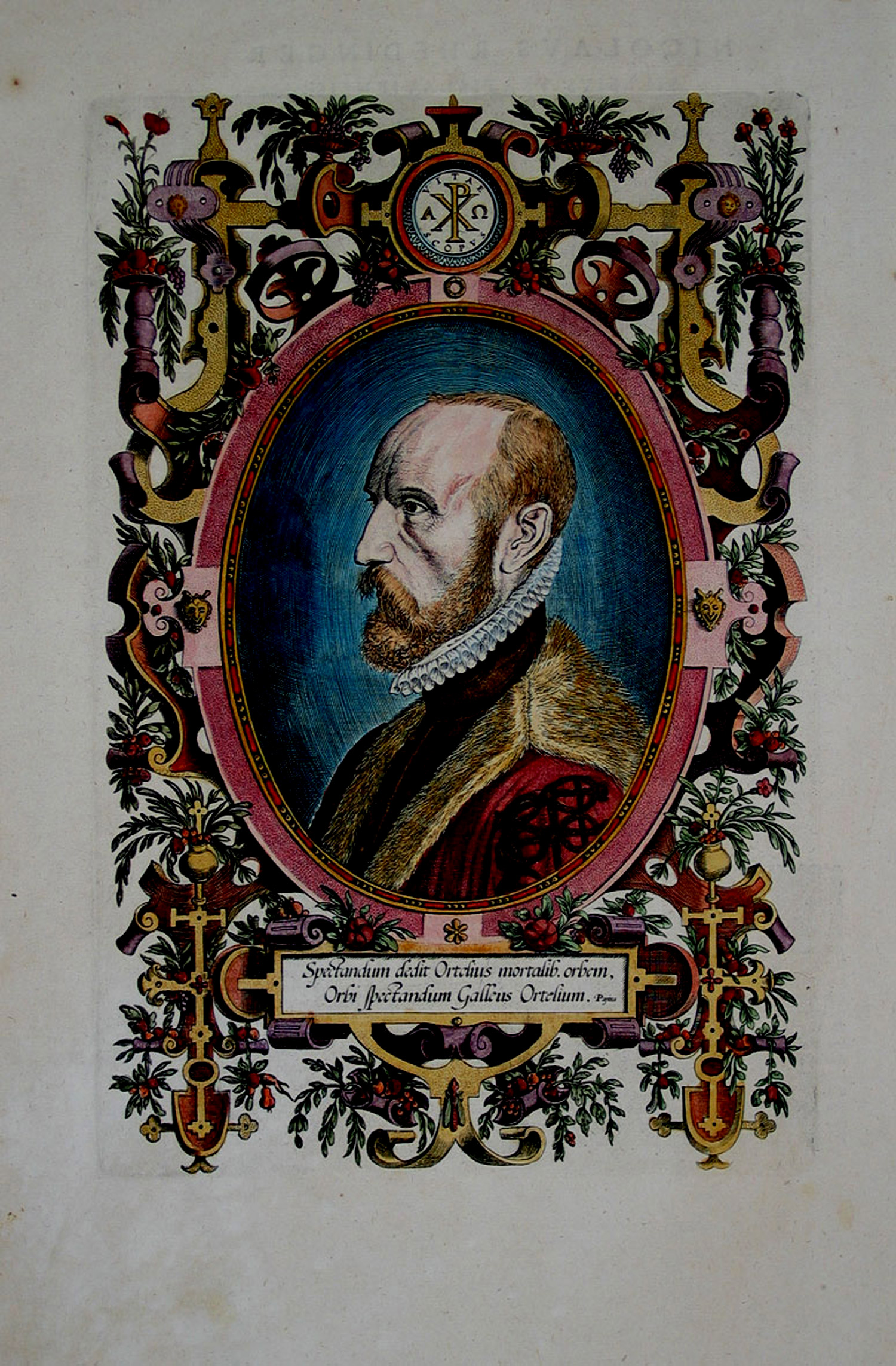 Abraham Ortelius (1527-1598), at the age of about 50. He was the author of the Theatrum Orbis Terrarum. Fine Handcolorpaper size 465 x 295 mm